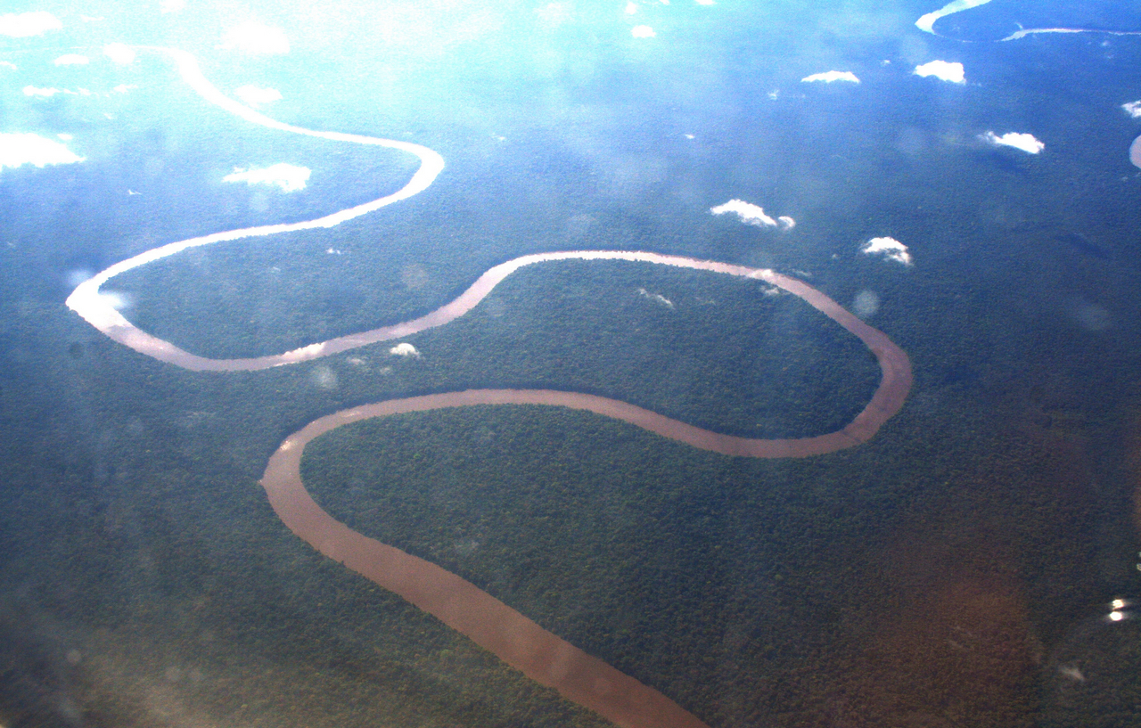 Saramacca river, Suriname jungle, primary rain forest.